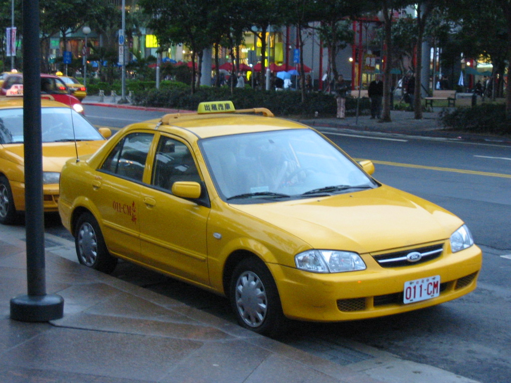 Ford Tierra taxi 011-CM parked outside Taipei 101 Mall.